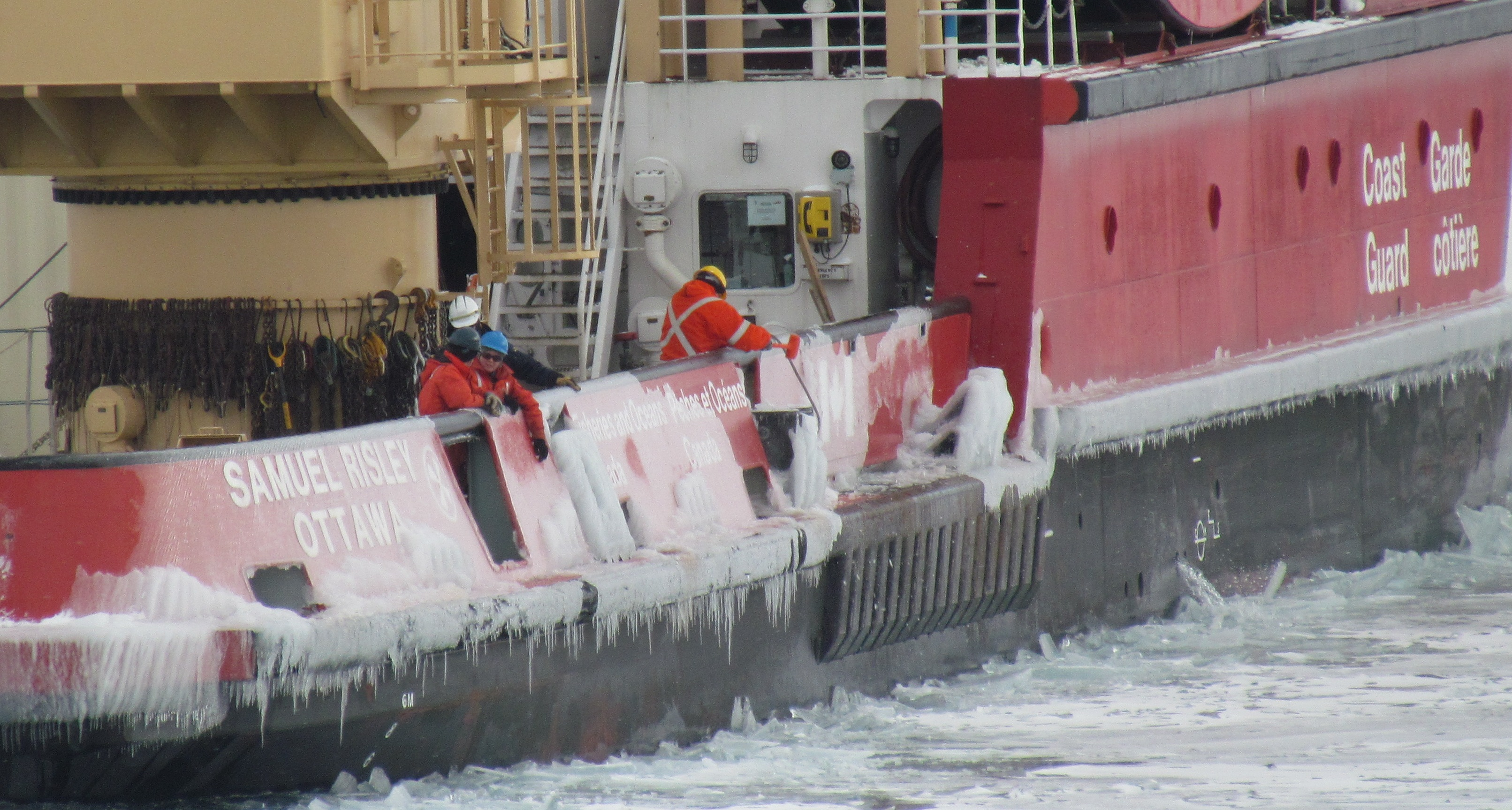 SAULT SAINTE MARIE, Mich. -- A crewmember of the Canadian Coast Guard Cutter Sameul Risley, uses a mallet to remove ice from the vessel as it leaves the Poe Lock, January 18. (U.S. Army Corps of Engineers photo by Michelle Hill)